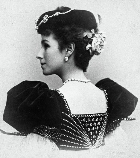 Photographic postcard of Mathilde Felixovna Kschessinskaya (1872-1971), costumed for the Spanish dance.